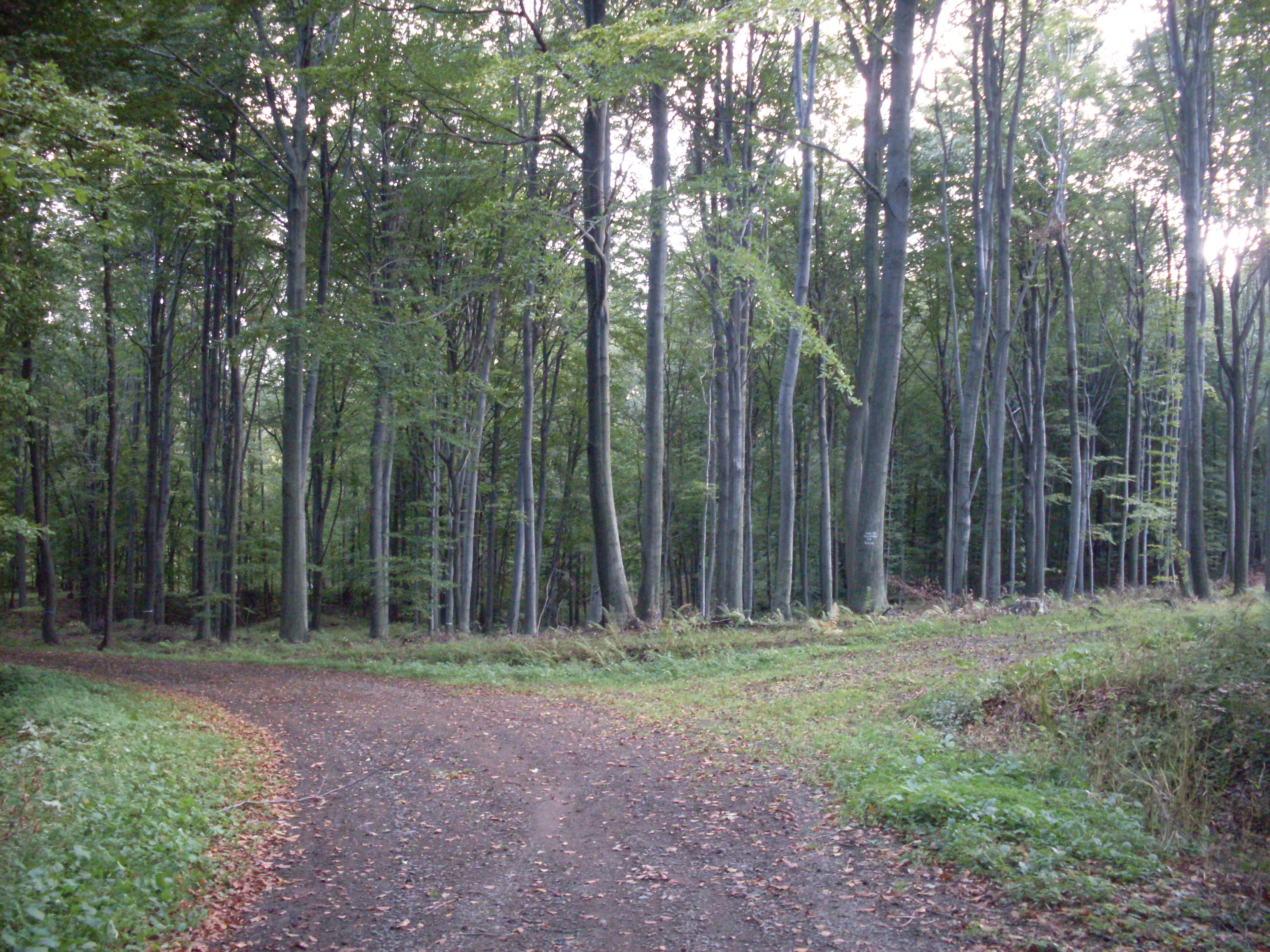 Orley